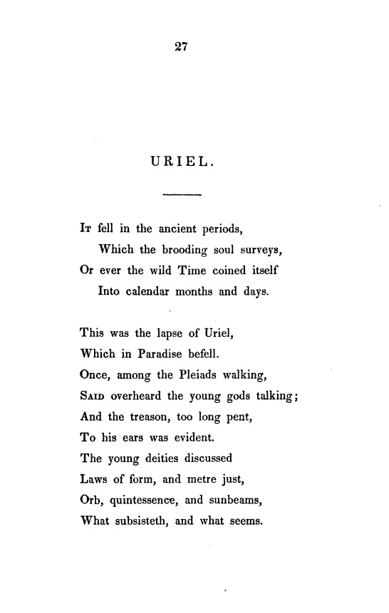 A page from Poems (1847) by American writer Ralph Waldo Emerson (1803-1882). Features the first page of the poem "Uriel".